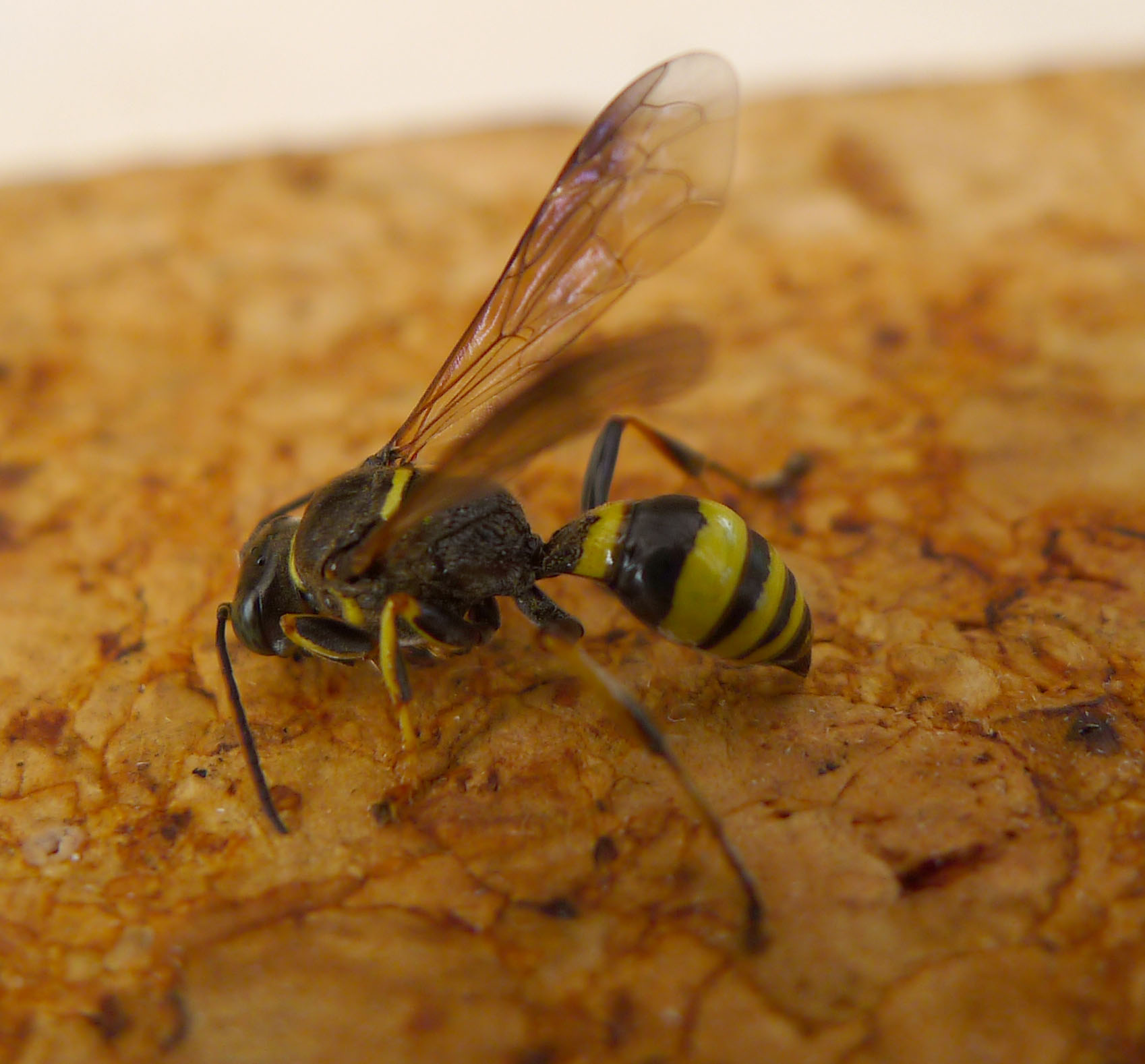 Cradley, Malvern Worcs. SO72894702. one seen